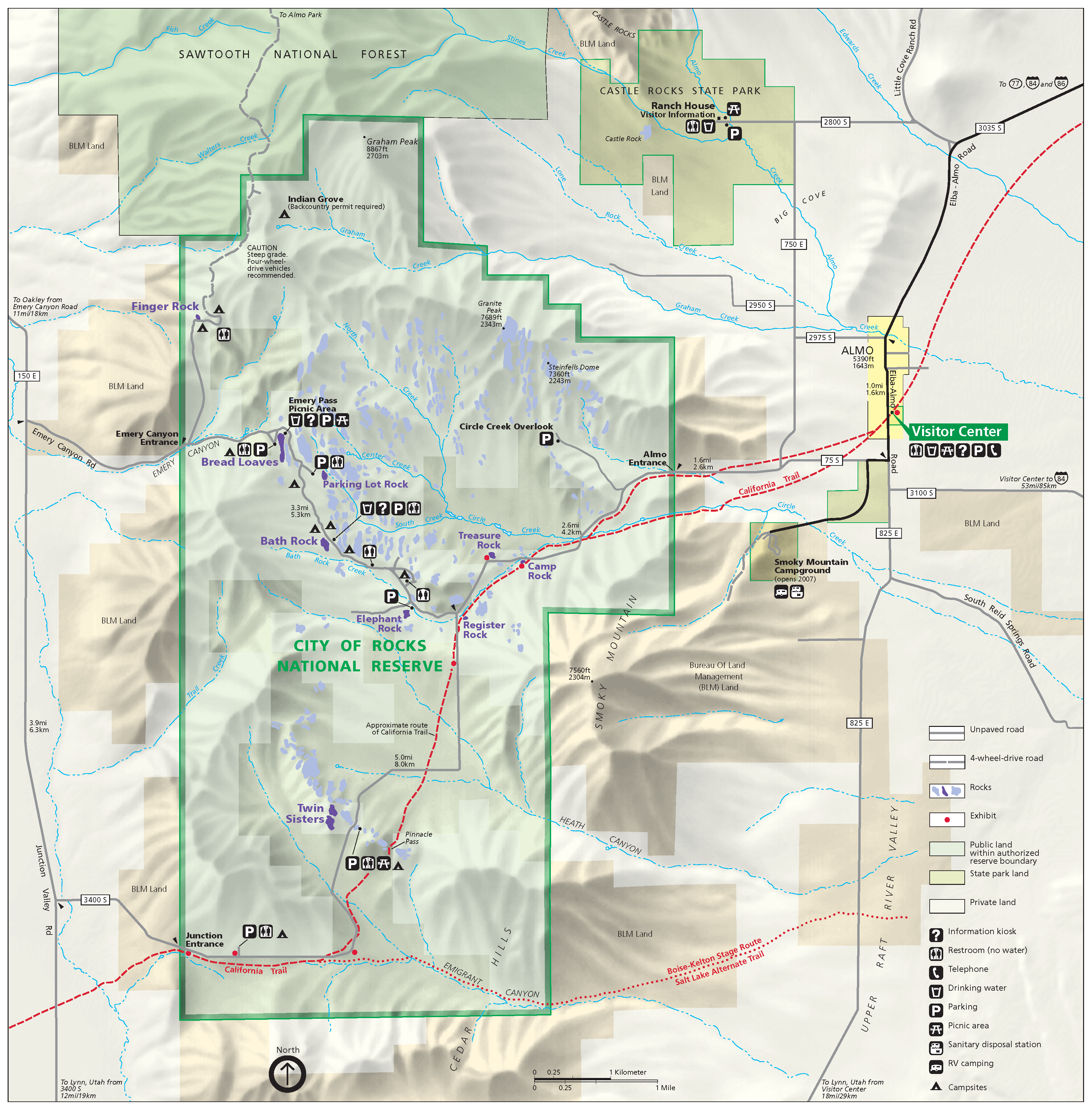 Official National Park Service map of City of Rocks National Reserve, Idaho. Converted from PDF using Adobe Acrobat 7.0 Professional. Original file name: CIROmap1.pdf